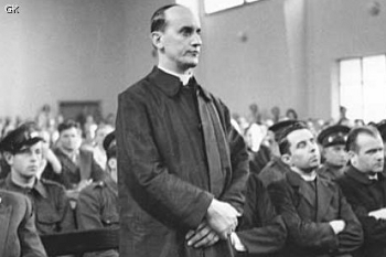 Archbishop Alojzije Stepinac on trial